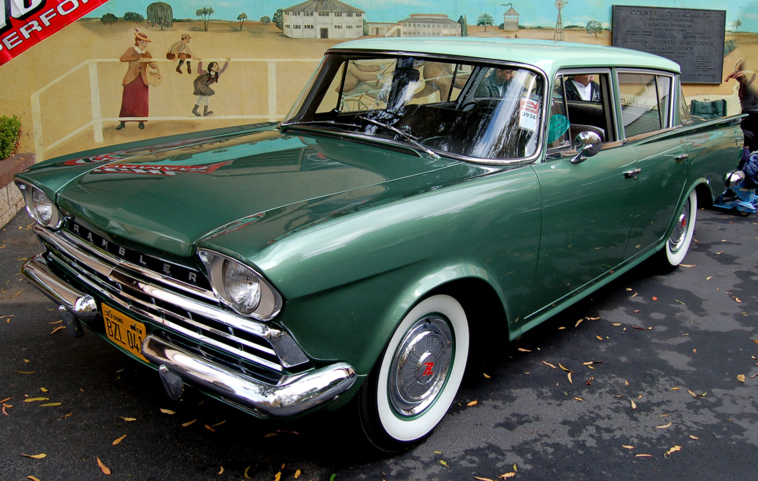 1960 Rambler Six DeLuxe 4-door sedan at the 22nd Goodguys Autumn Get-Together, Pleasanton, CA November 12, 2011